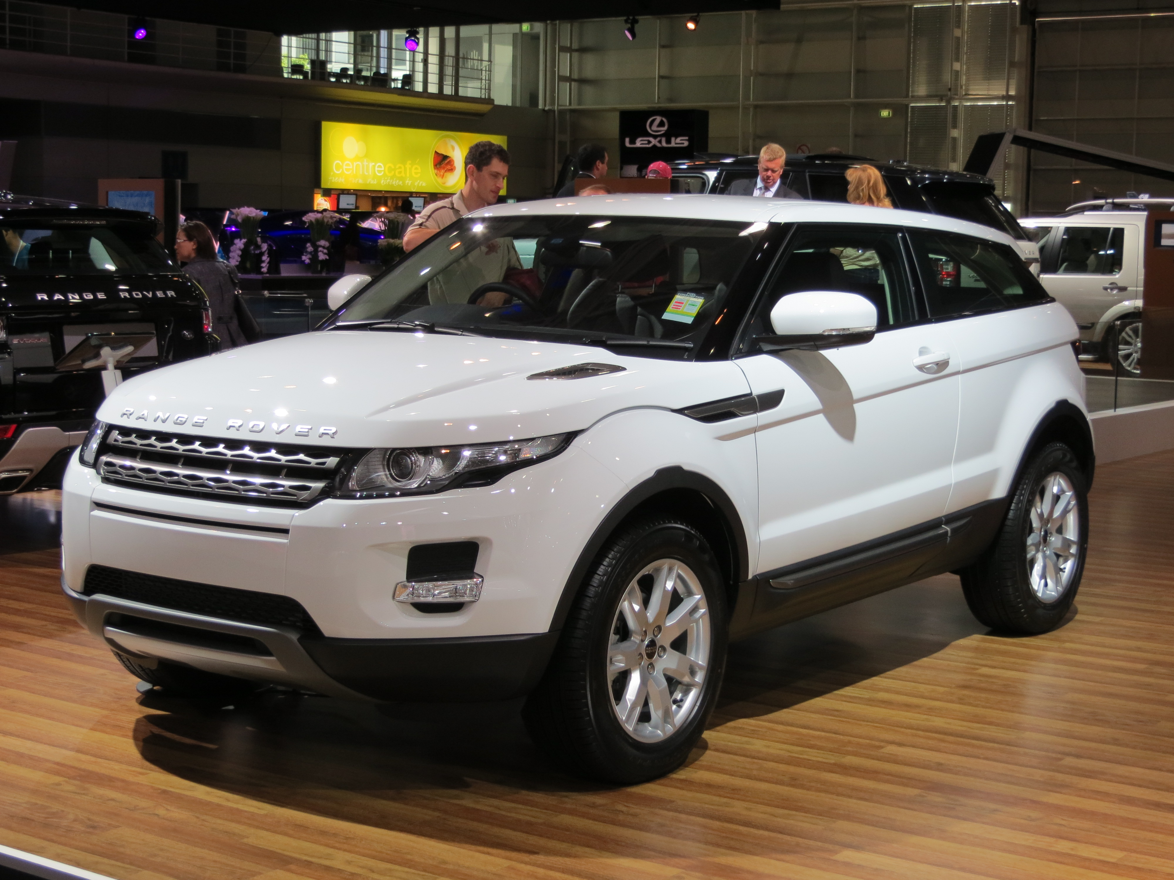 2012 Land Rover Range Rover Evoque (L538 MY12) Si4 Pure 4WD 3-door wagon. Photographed at the 2012 Australian International Motor Show, Sydney, New South Wales, Australia.